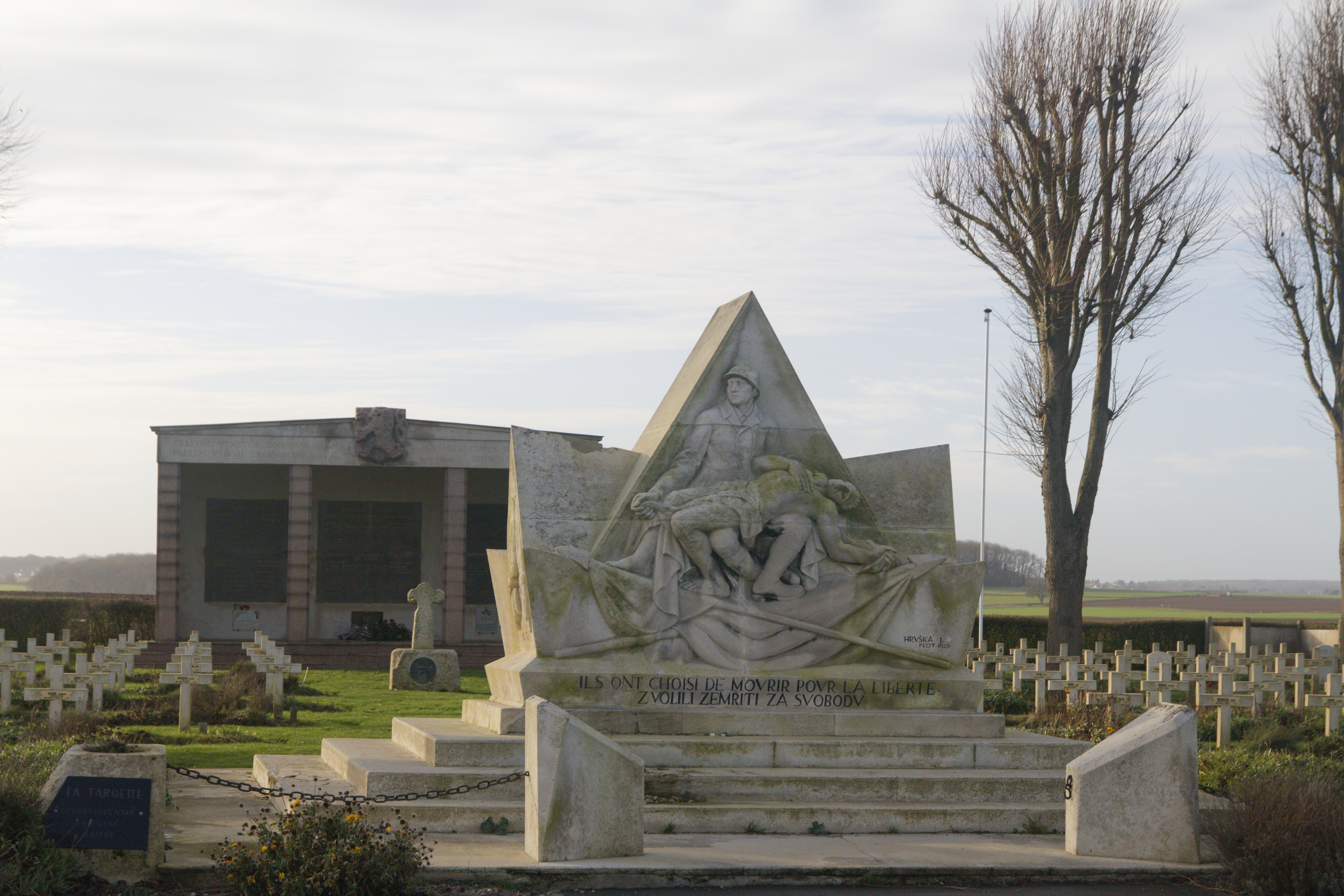 Memorial of La Targette Czechoslovakian cemetery.